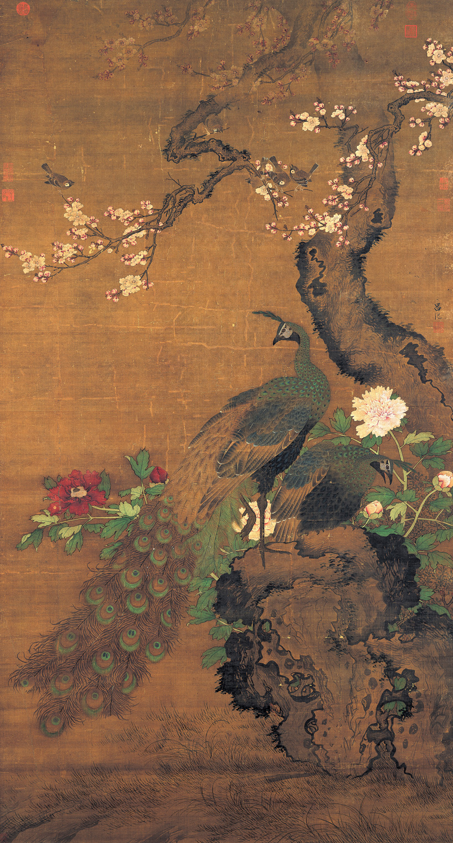 Lü Ji Apricot Blossoms and Peacocks. 15 cent. National Palace Museum, Taipei